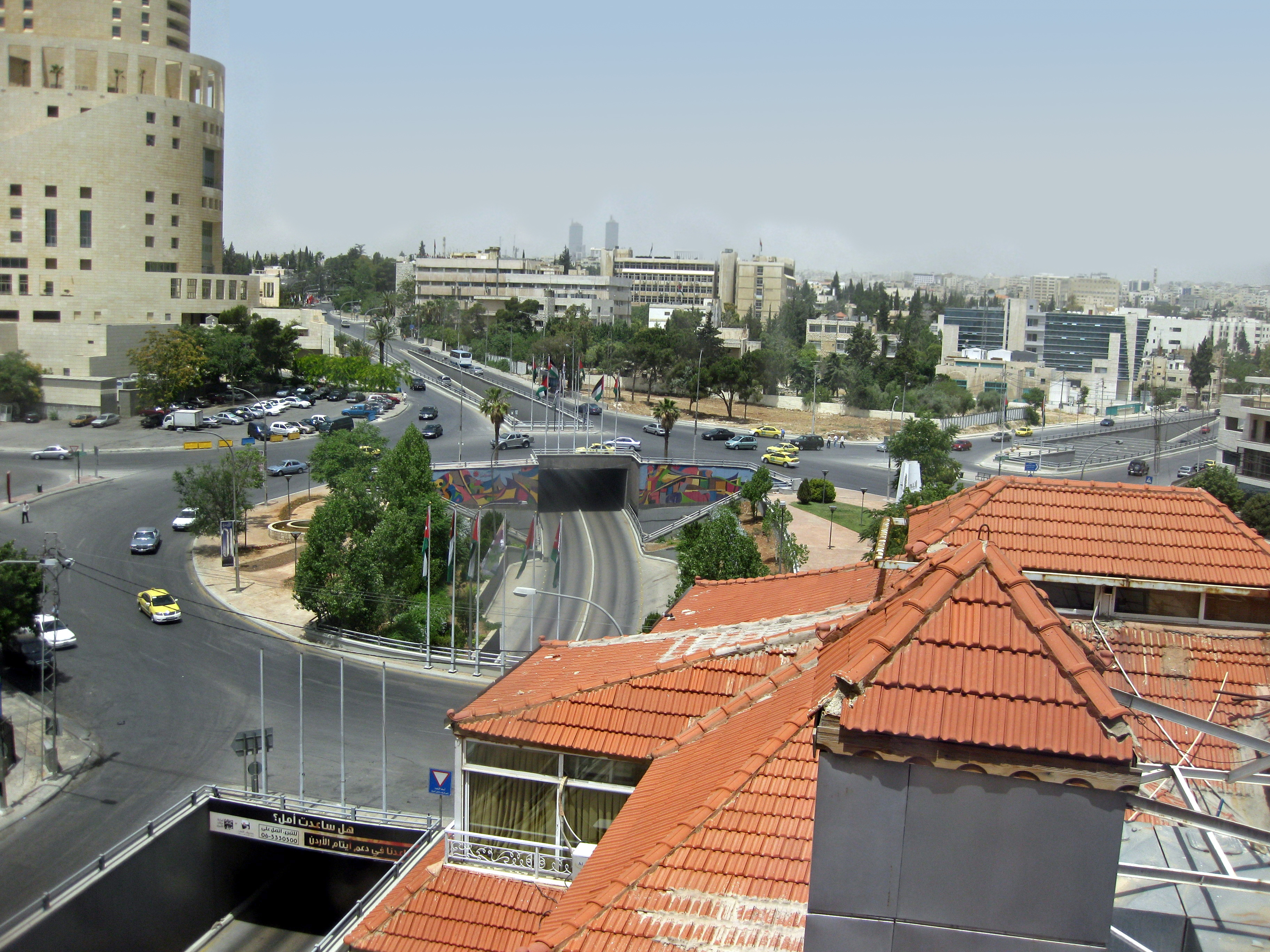 Third Roundabout - Jabal Amman - Amman - Jordan - Zahran street.